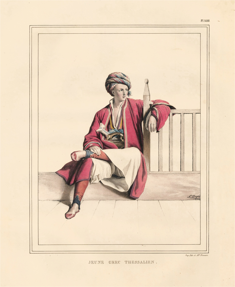 "Jeune Grec thessalien" ("Young Thessalian Greek") by Louis Dupré